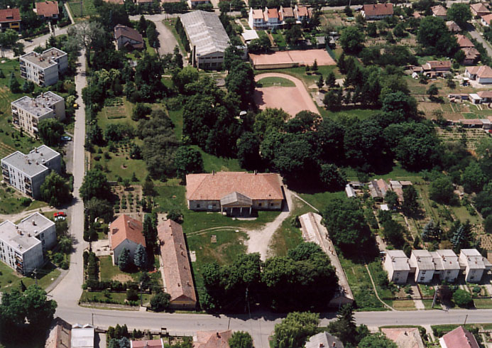 Palace - Romhány - Hungary - Europe